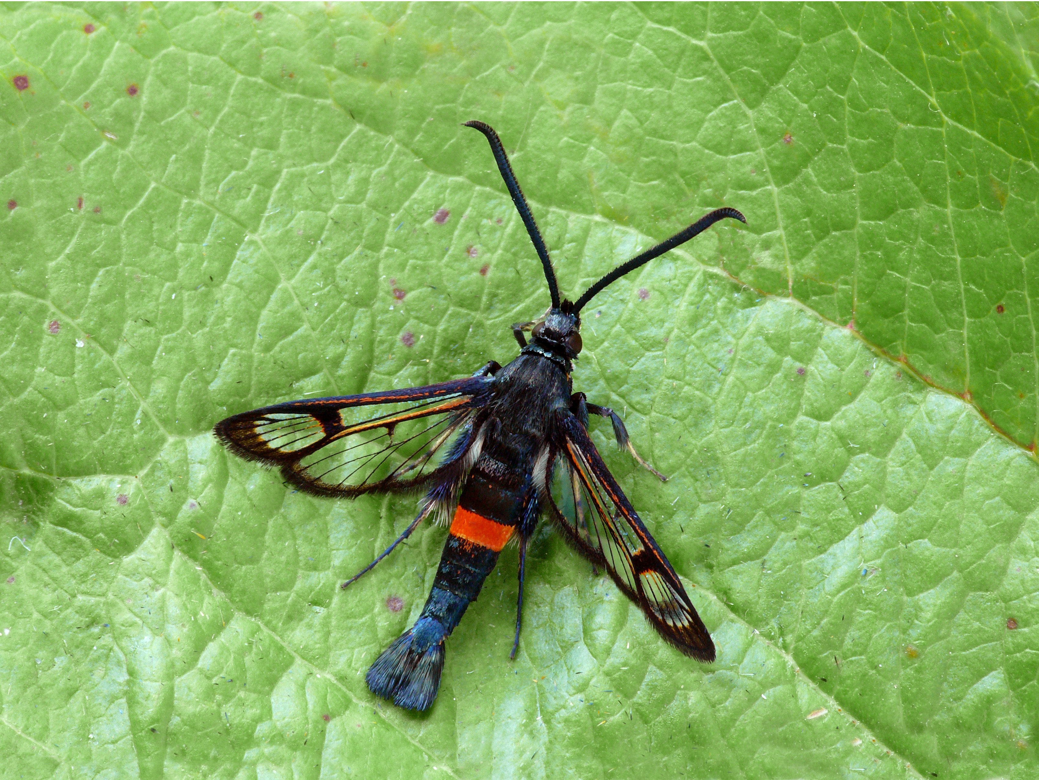 Arley, North Worcestershire. Attracted to a pheromone lure beneath old Pear trees.